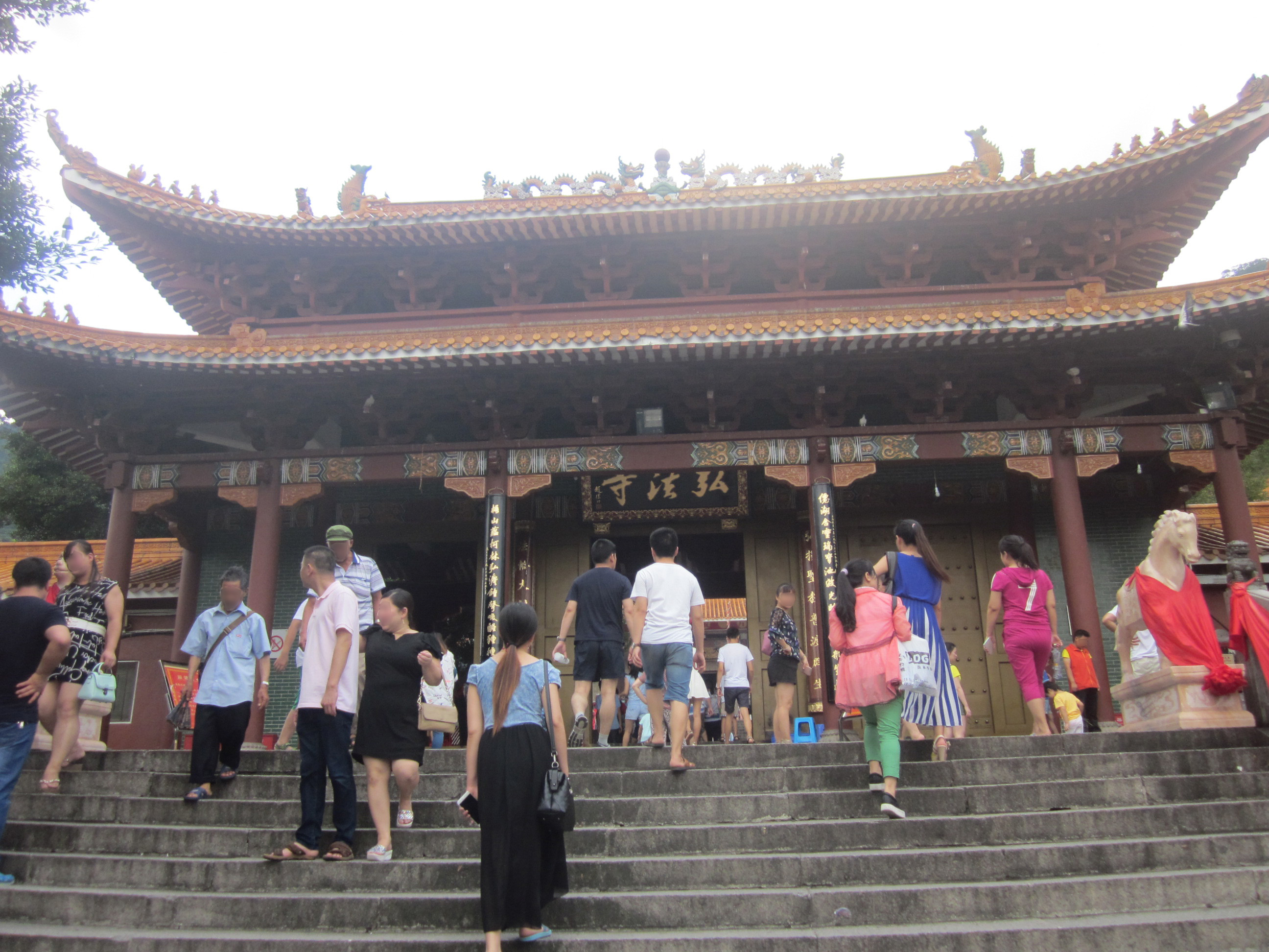 The Temple Gate (Sanmon) at Hongfa Temple, in Shenzhen, Guangdong, China. Hongfa Temple (弘法寺), is a Buddhist temple located in Bao'an District of Shenzhen city, south China's Guangdong province.